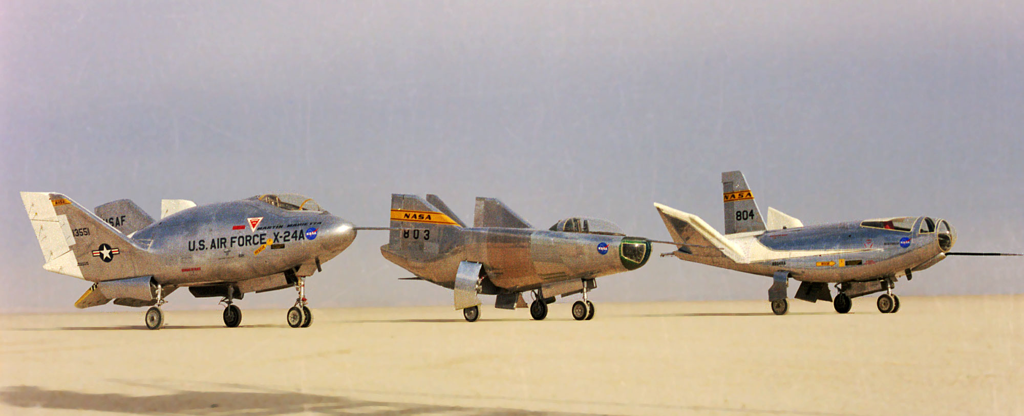 Lifting body design progression (from NASA Photo). From left to right: X-24A, M2-F3 and HL-10.